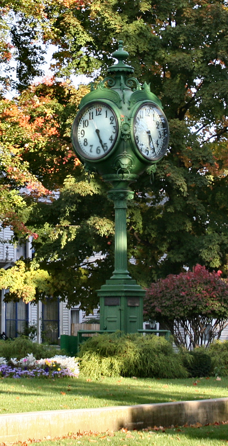 Ligonier, Indiana town clock. Photo shot by Derek Jensen (Tysto), 2005-October-17